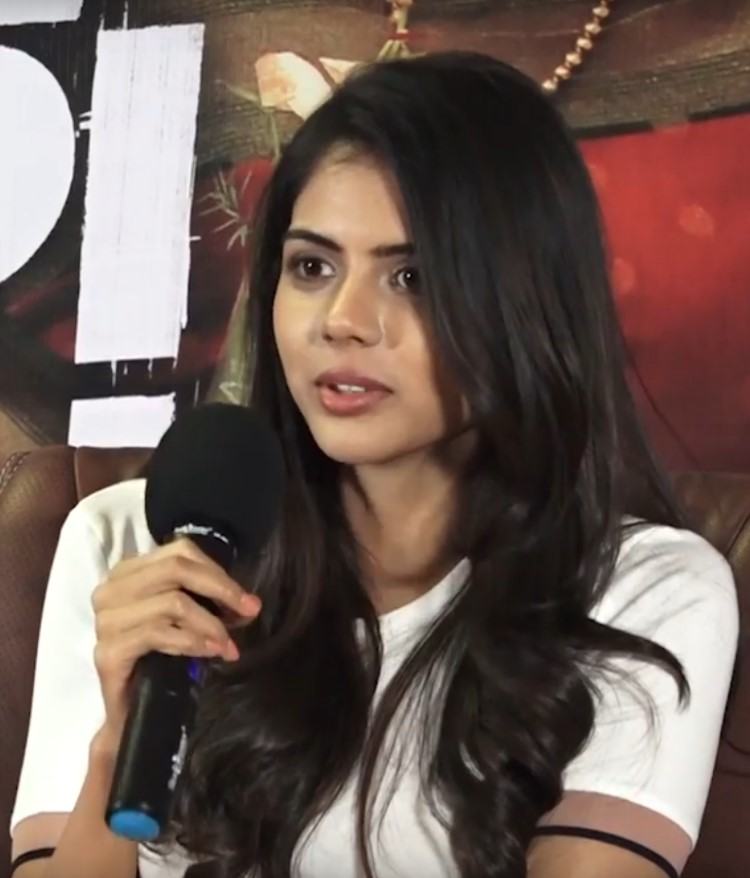 Indian film actress Kalyani Priyadarshan promoting her film Hello at Hyderabad, India